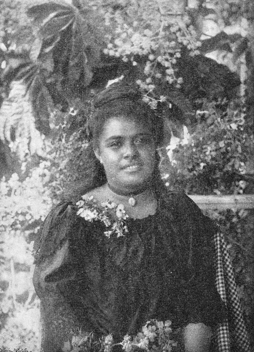 Girl from Tonga island. An illustration to a Czech-language travelogue Obrazy z jižní polokoule ("Pictures from the Southern Hemisphere"), chapter III. K souostroví samojskému ("Towards the Samoan Islands")